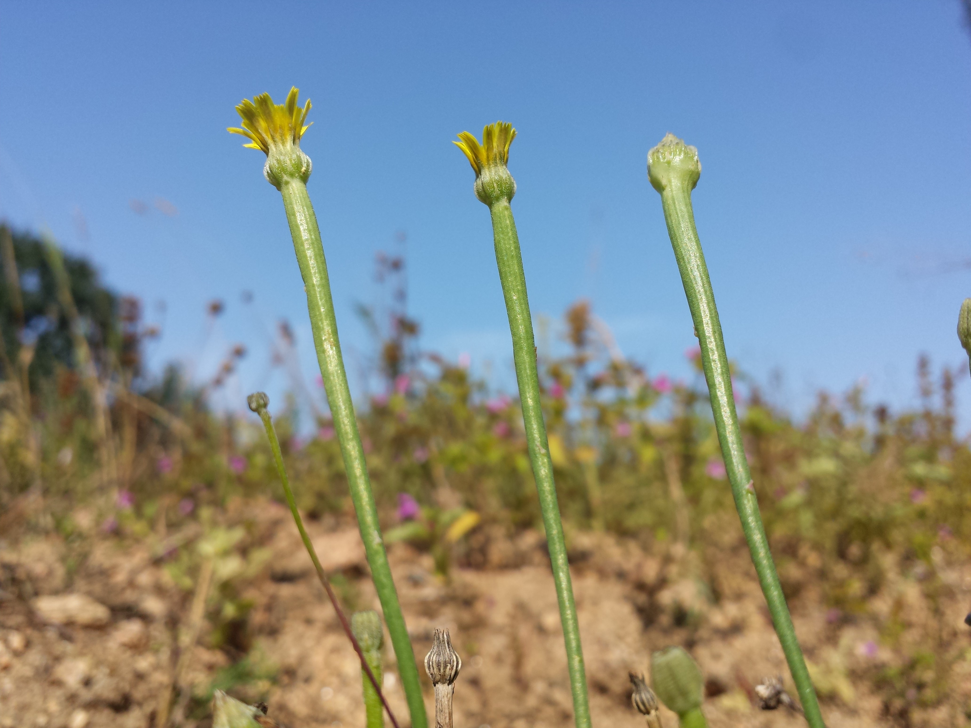 Flower baskets Taxonym: Arnoseris minima ss Fischer et al. EfÖLS 2008 ISBN 978-3-85474-187-9 Location: Blockheide near Gmünd, district Gmünd, Lower Austria - ca. 500 m a.s.l. Habitat: field